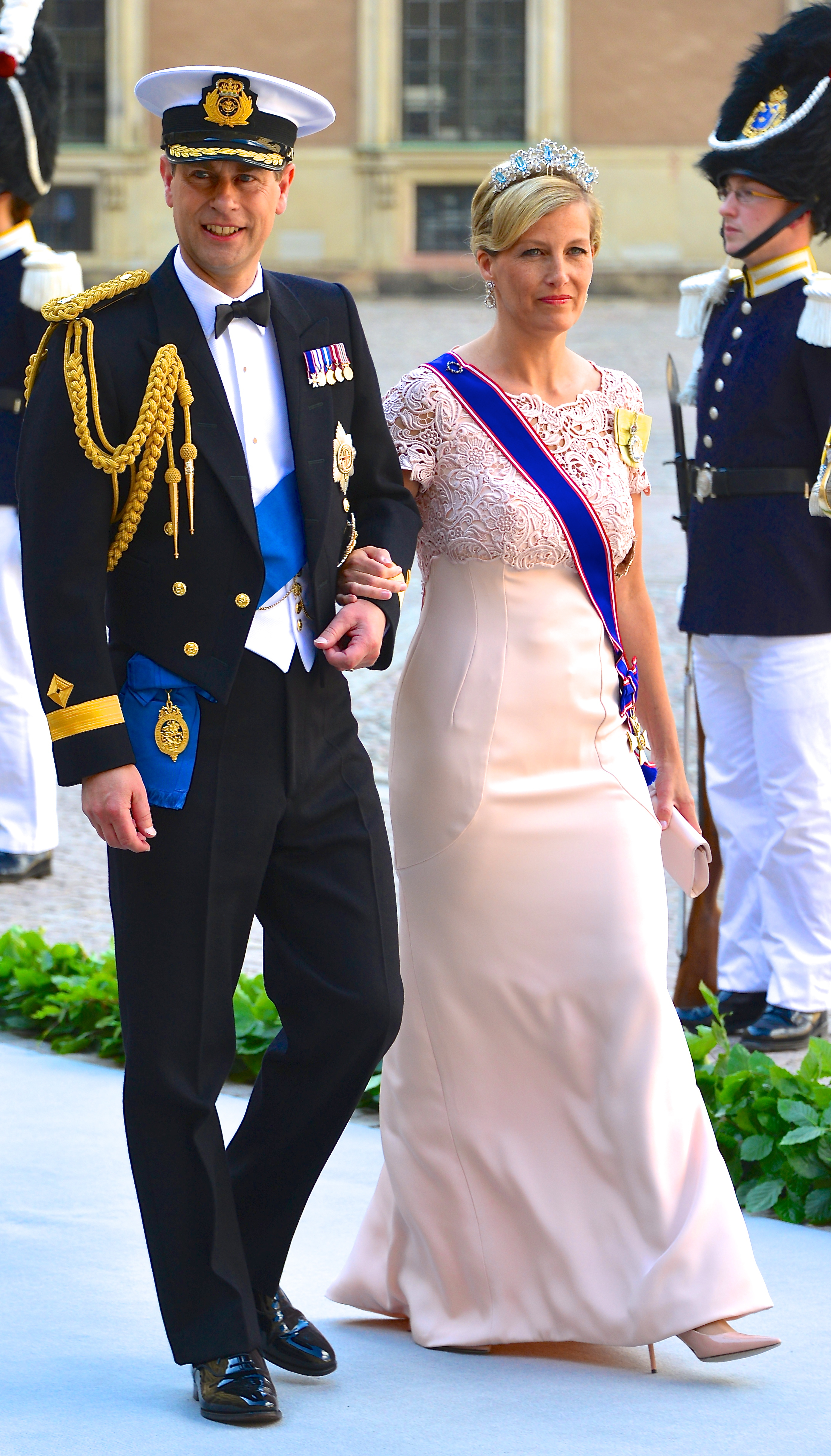 Prince Edward, Earl of Wessex and Sophie, Countess of Wessex on the way to the castle church at the Royal Palace in Stockholm before the wedding between Princess Madeleine and Christopher O'Neill June 8, 2013.